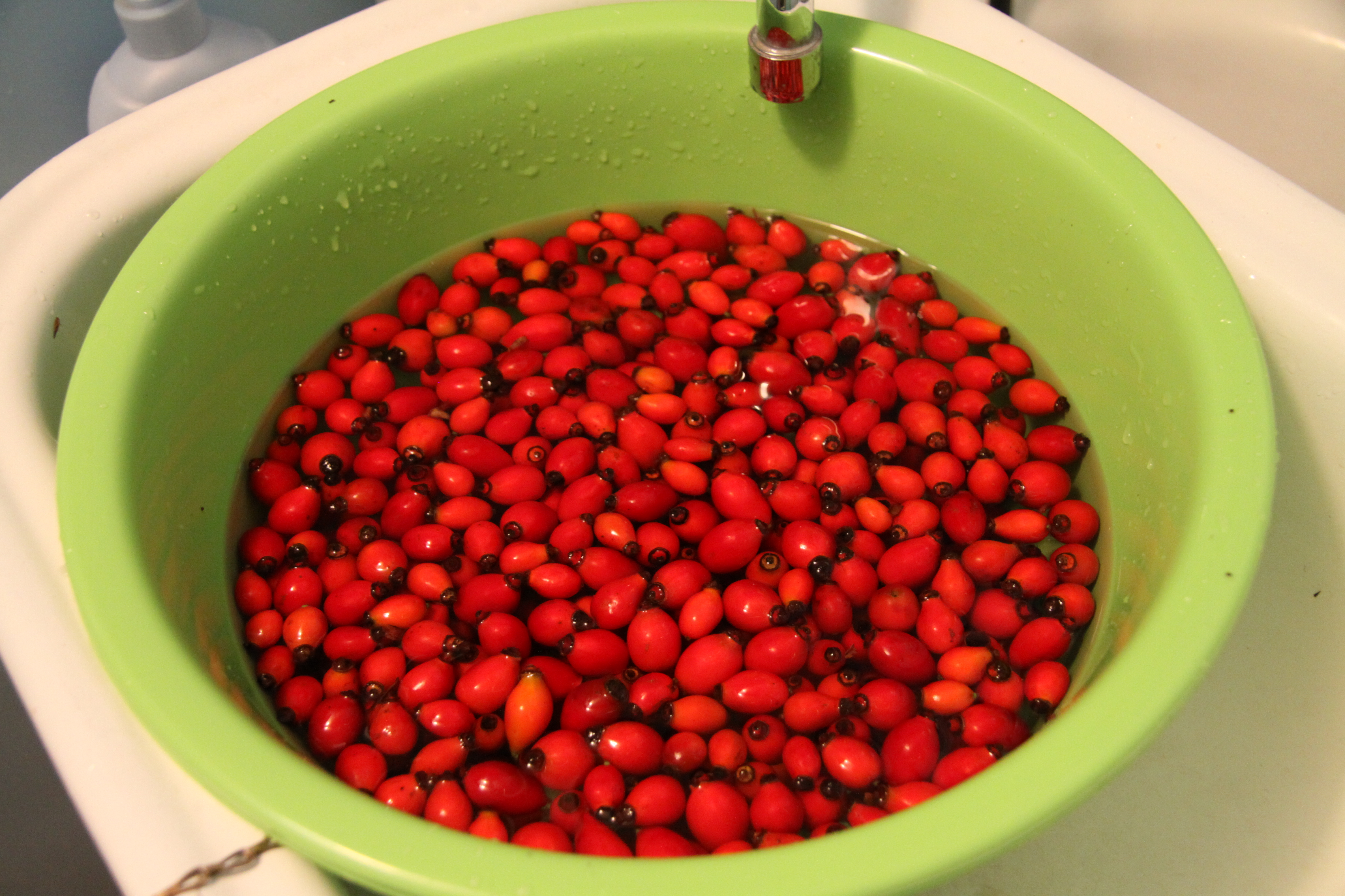 Drying of Rose hips for tea. Washing rose hips in water to take out leaves and dirt